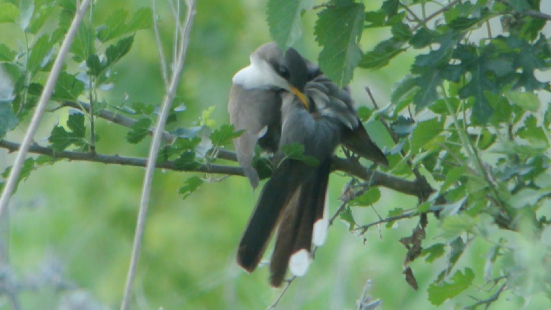 Eagle Bluffs Conservation Area in Missouri on 5/26/12